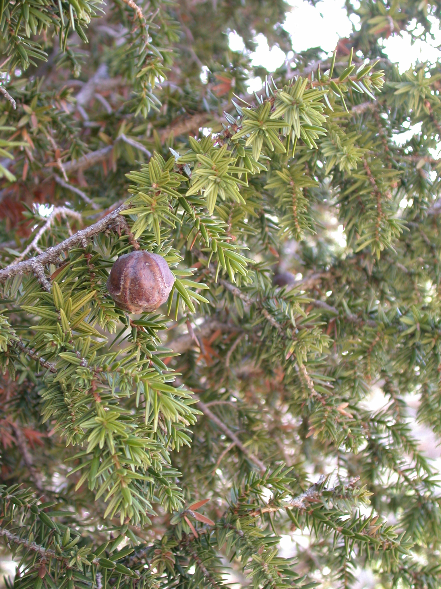 Juniperus drupacea Labill., Mount Hermon, Israel/Syria, March 30, 2006.